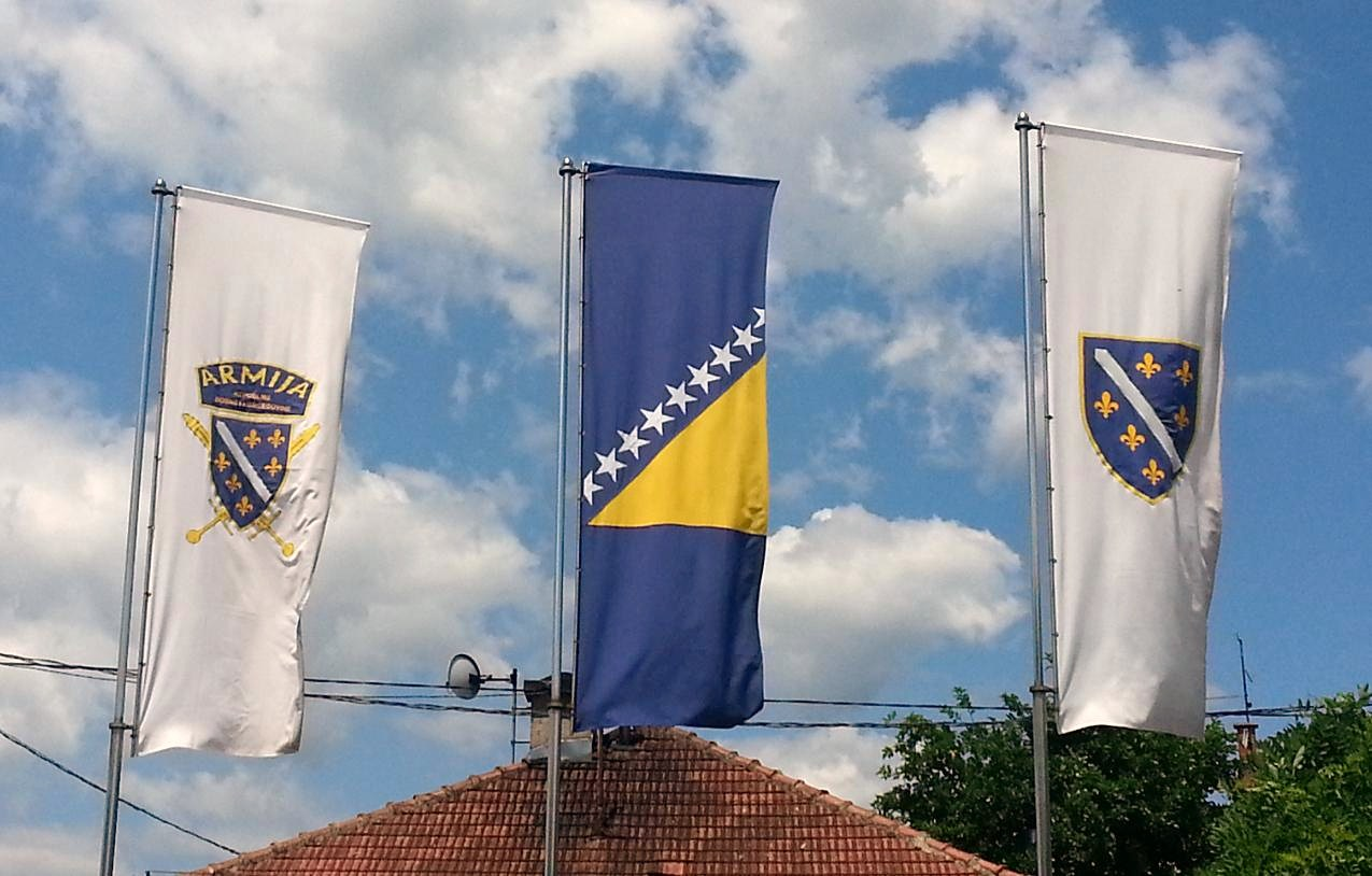 Bosnian flags in front of the Alija Izetbegović's grave in Sarajevo, Bosnia and Herzegovina.